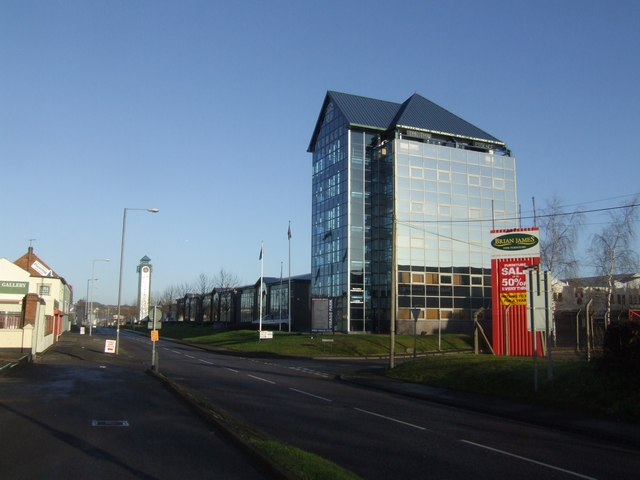 Virage Park, Bridgtown, near to Bridgtown, Staffordshire, Great Britain. Pritchard Holdings have been responsible for a lot of the redevelopment carried out around Bridgtown.